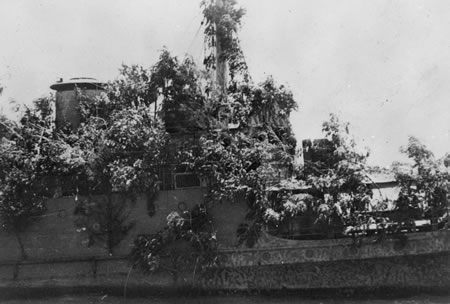 1-The bridge of the Abraham Crijnssen, almost totally obscured by the layers of concealing foliage.